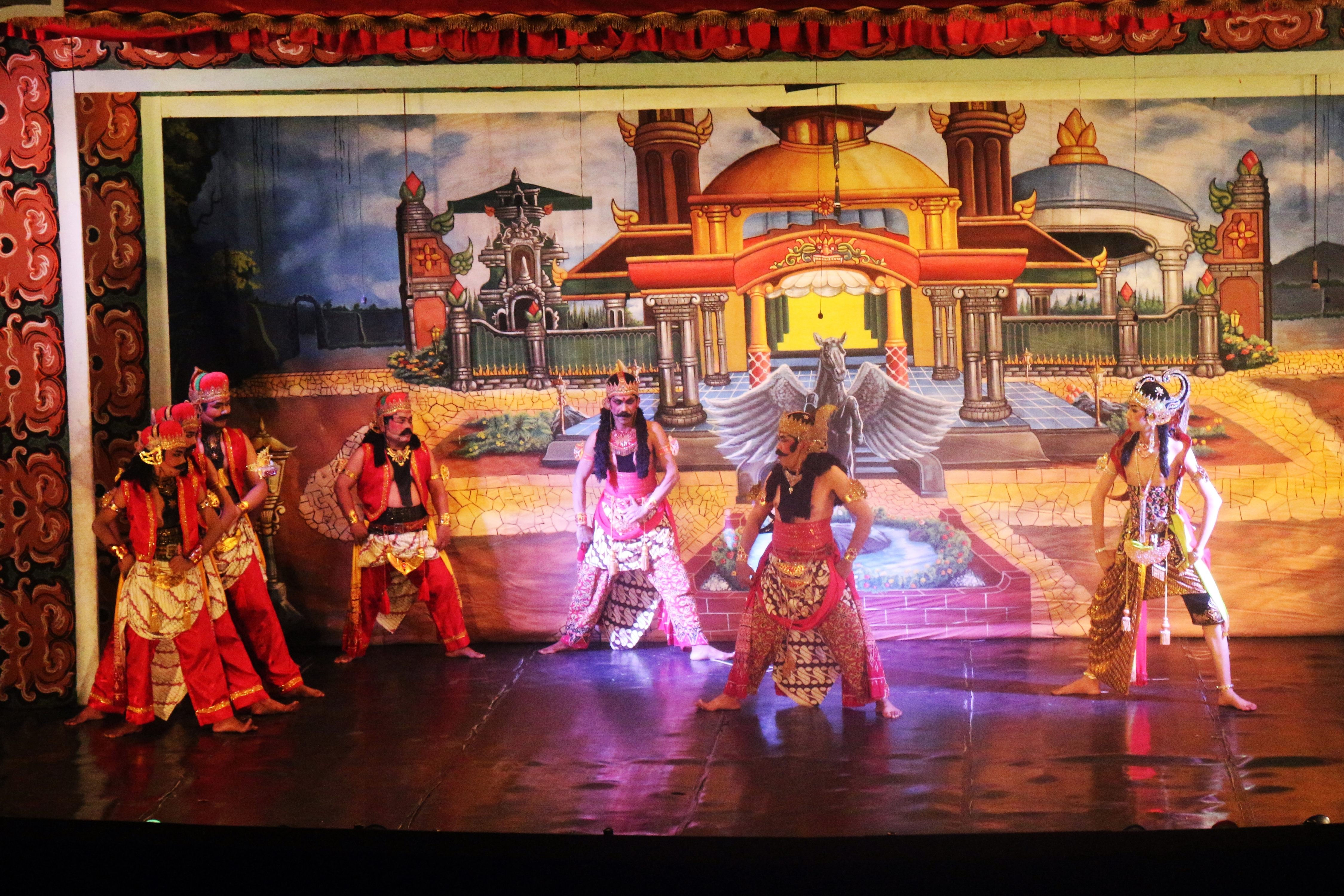 Bambang Pramusinta Story